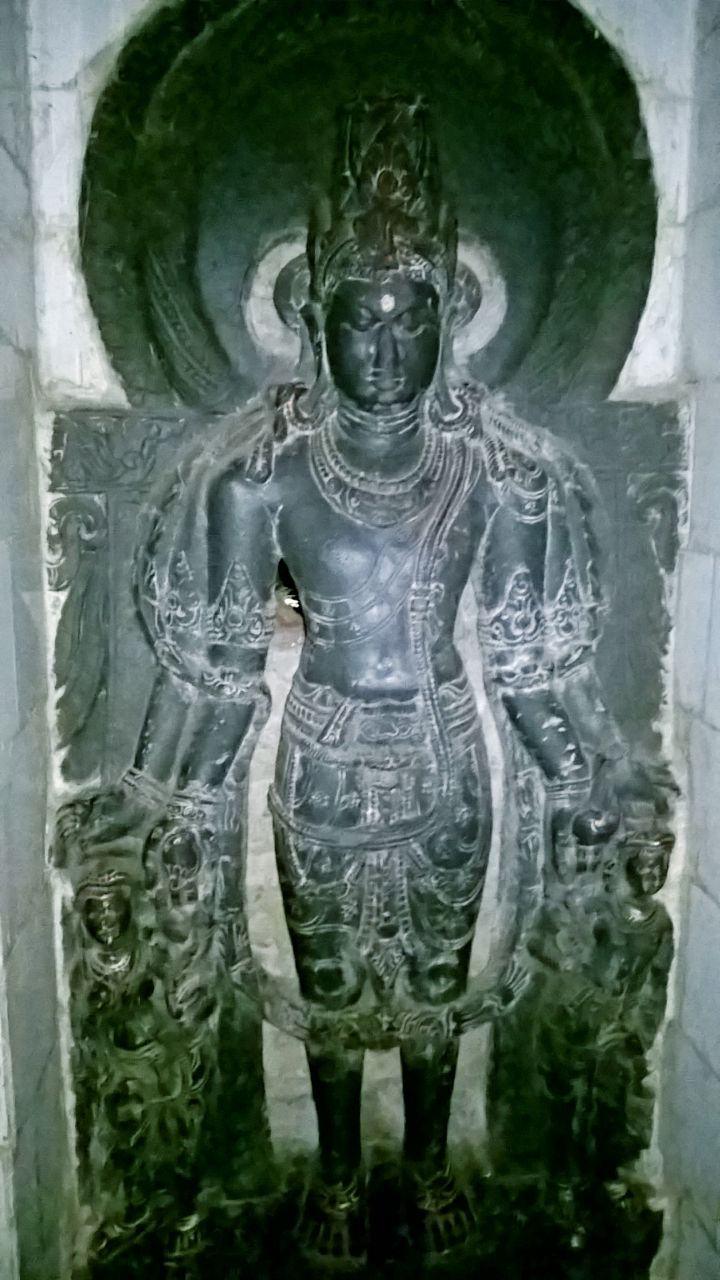 Rarest posture of Vishnu with all the hands down.